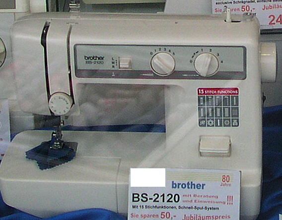 Brother sewing machine BS 2120